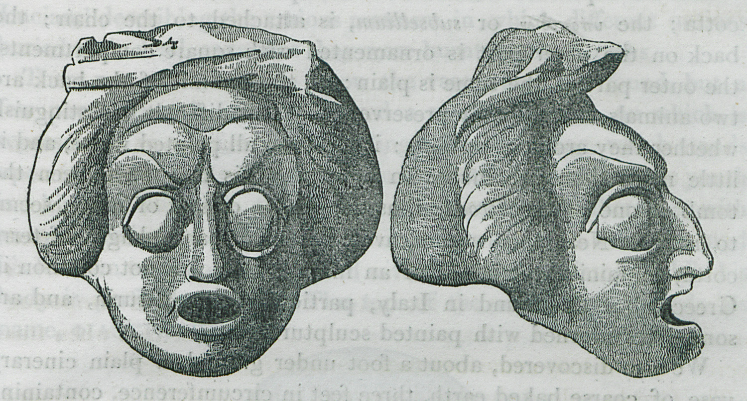 Edward Dodwell. A Classical and Topographical Tour through Greece, during the Years 1801, 1805, and 1806, vol. ΙΙ, London, Rodwell and Martin, 1819.